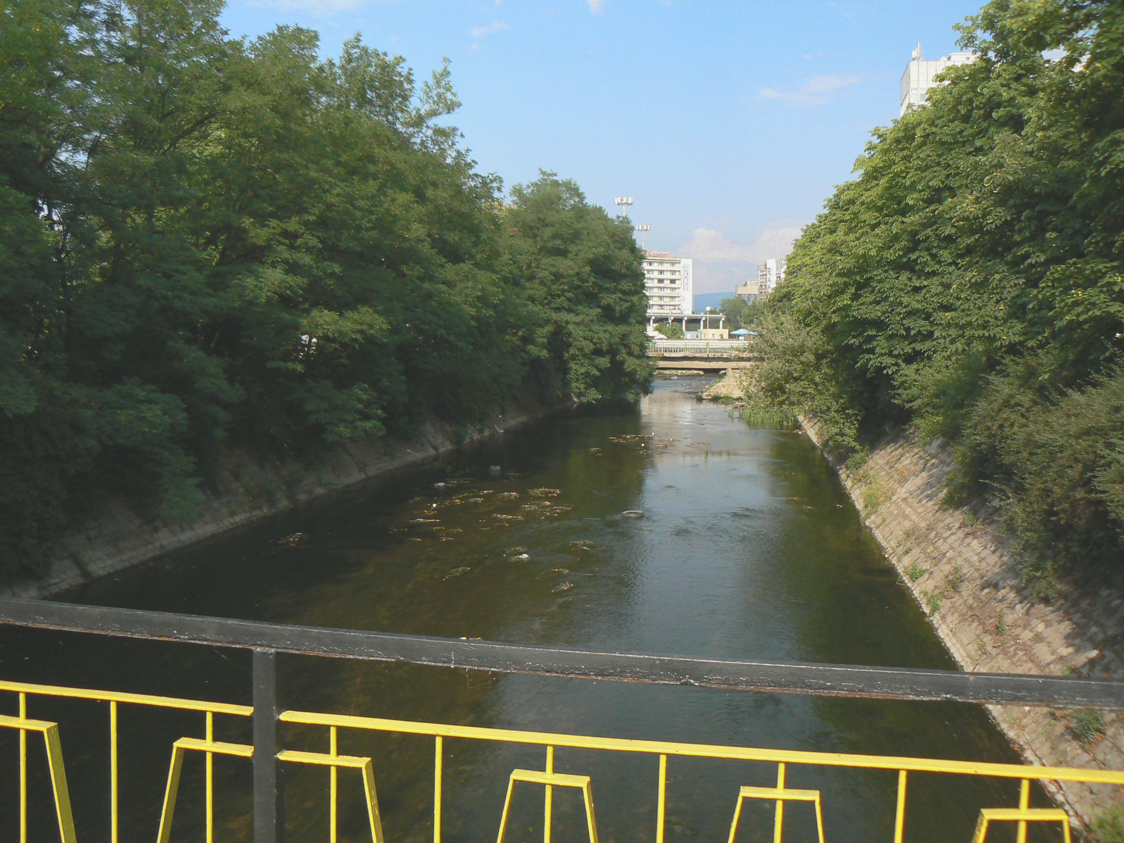 River Struma, flowing via Pernik, Bulgaria